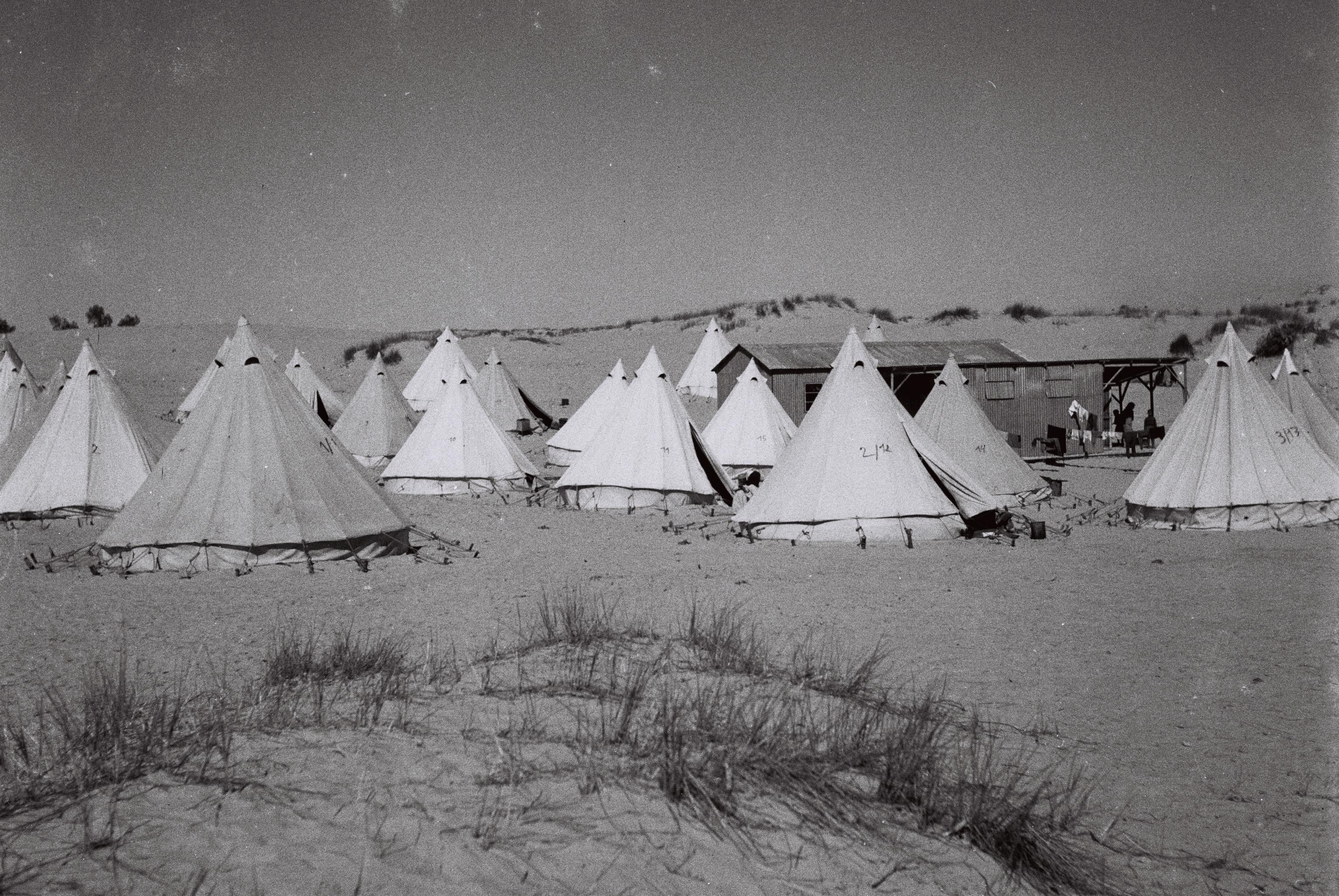 The erection of the Ezra uBitzaron neighbourhood in Rishon leZion שכונת עזרה ובצרון בעת הקמתה בחולות ראשון לציון